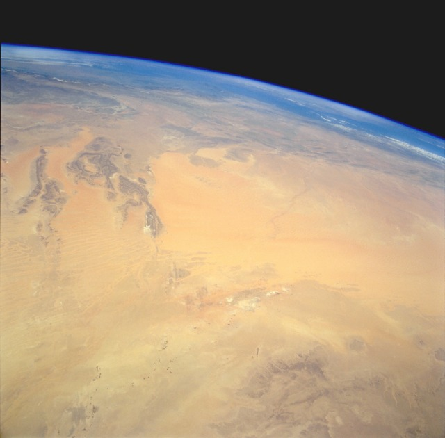 The Grand Erg Occidental (sand dune region) of north-central Algeria is the large sandy-looking area in the center of the photograph. This true desert region receives less than 10 inches (25 centimeters) of rainfall per year. The scale of this high-oblique, northwest-looking photograph does not permit the viewer to see the assortment of sandy landforms within the Grand Erg Occidental—linear dunes, star dunes, complex dunes, compound sheets, and sand streaks. The dark features to the southeast are the northwestern edge of the Tademait Plateau. The small dark specks near the southern edge of the photograph are very small oases and a few isolated circular field patterns (center-pivot irrigated fields). Immediately south of the large sand dunes region are several playas (dry lakebeds) where surface deposits of salt produce a highly reflective surface. The darker landforms near the western side of the photograph are slightly elevated bedrock outcrops whose ridge lines average 2000 feet (610 meters) above sea level. Near the horizon, the eastern end of the Atlas Mountains is barely discernible.